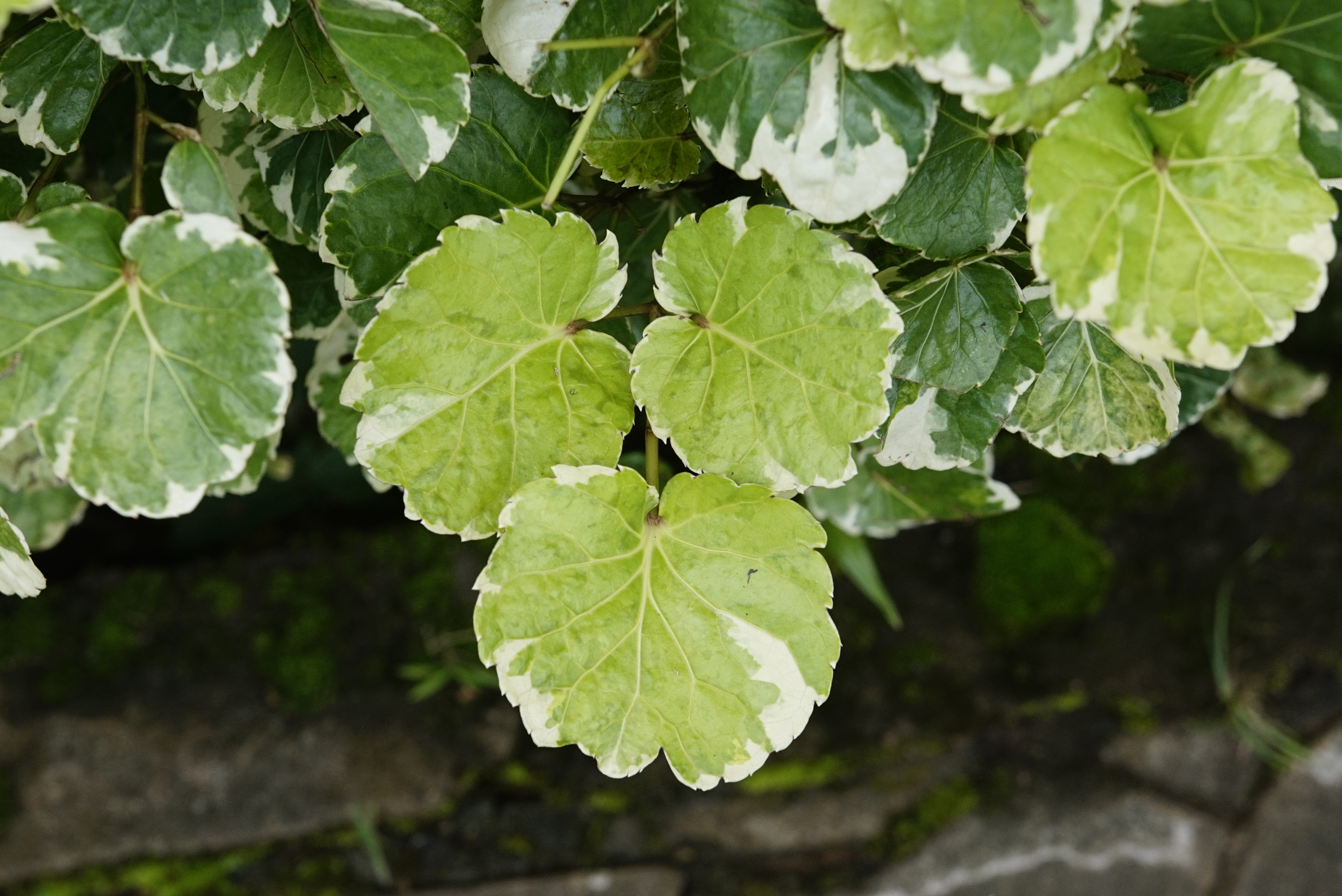 Nilambur